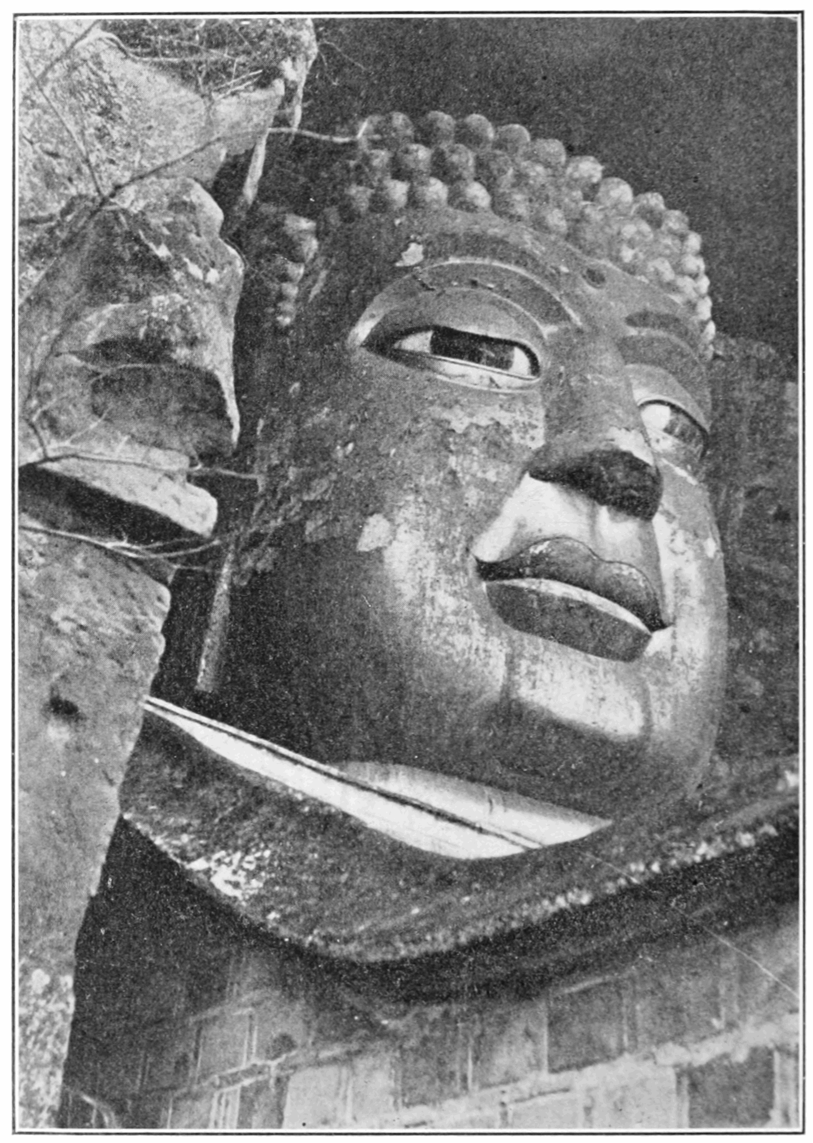 Face of the great Buddha at Hong Hien